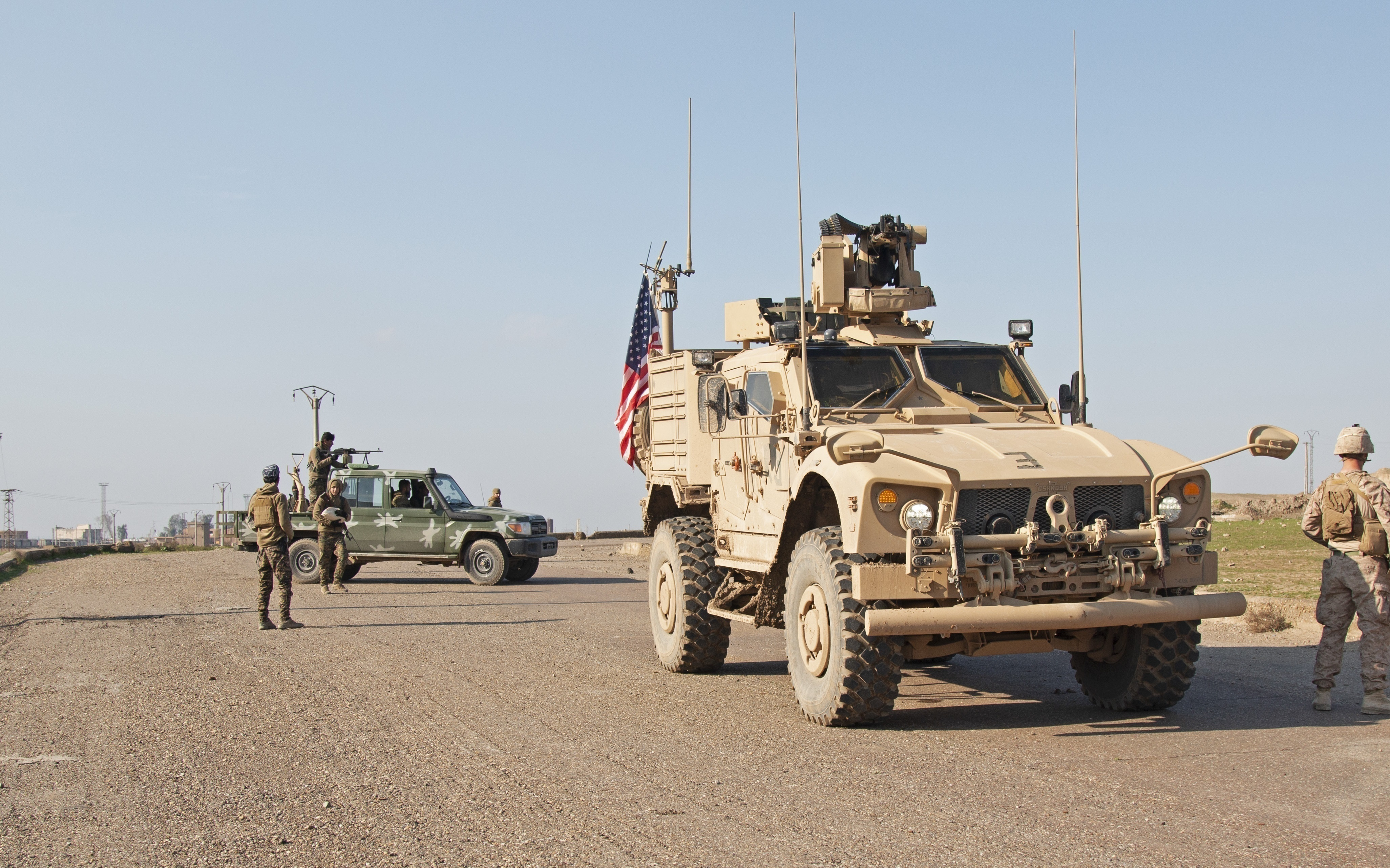 Joint SDF - US checkpoint in an undisclosed location